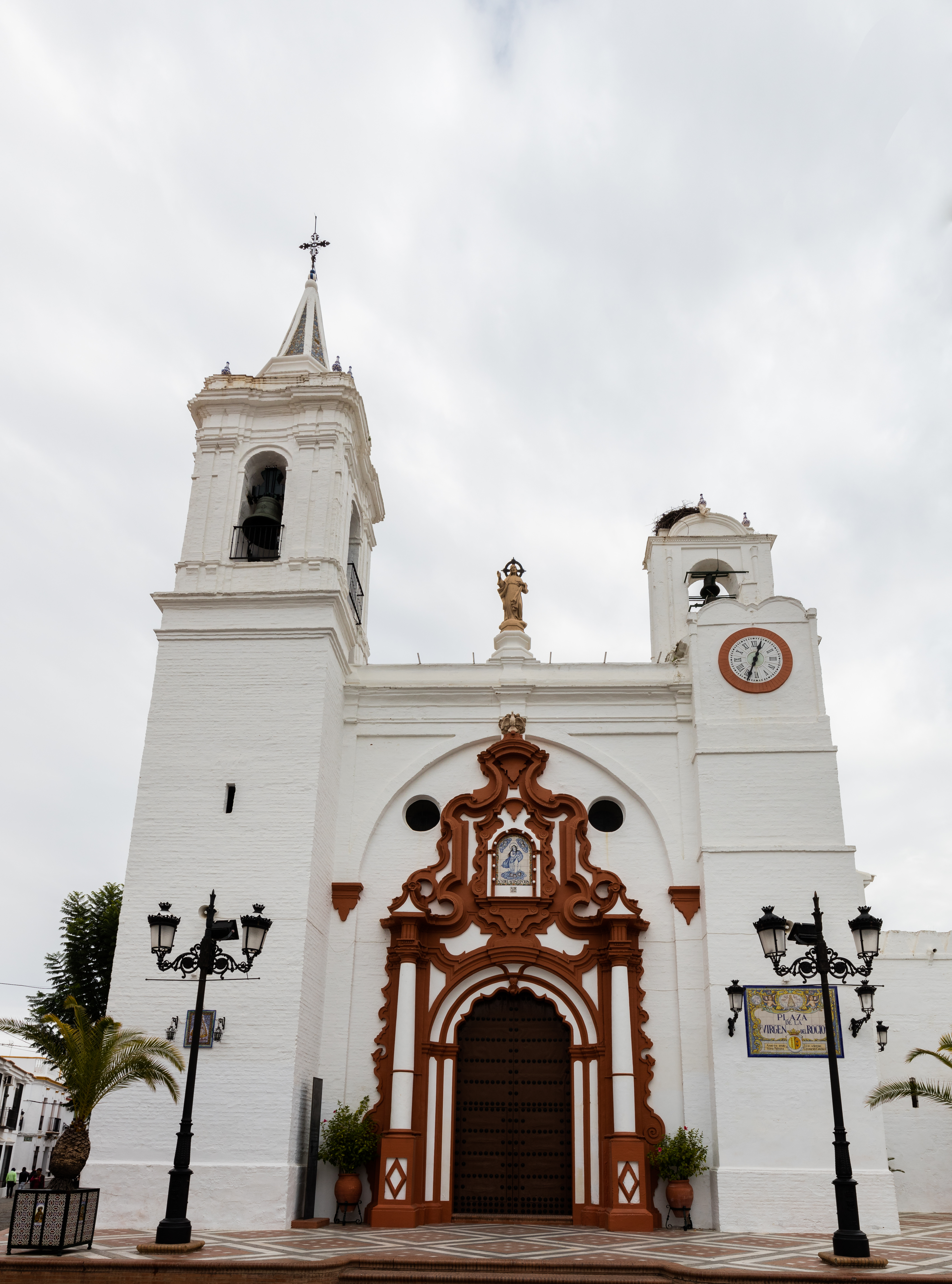 Church of Nuestra Señora de la Asunción, Almonte, Huelva, Spain